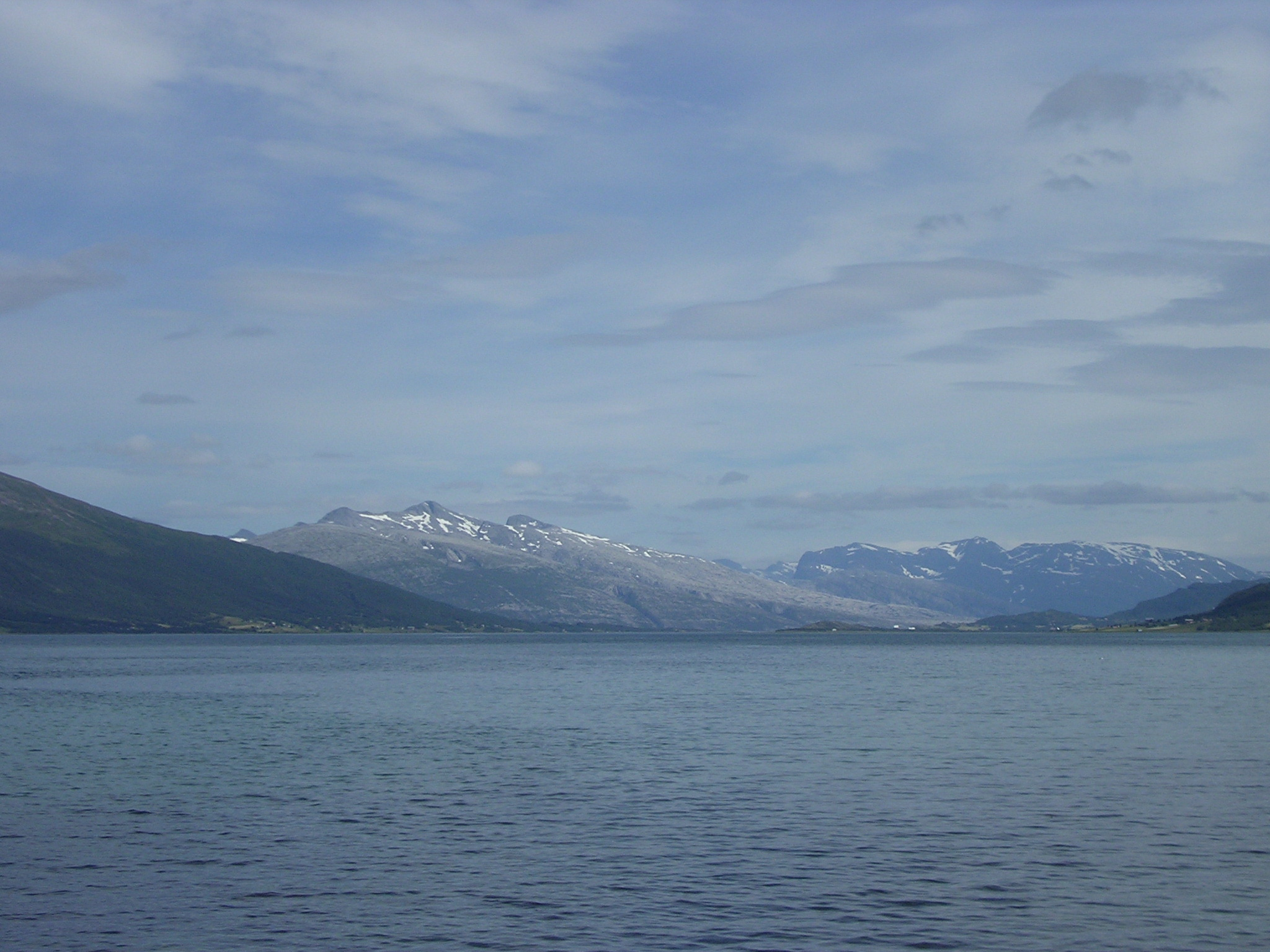 Norwegian fjord Lillesjona in Helgeland.